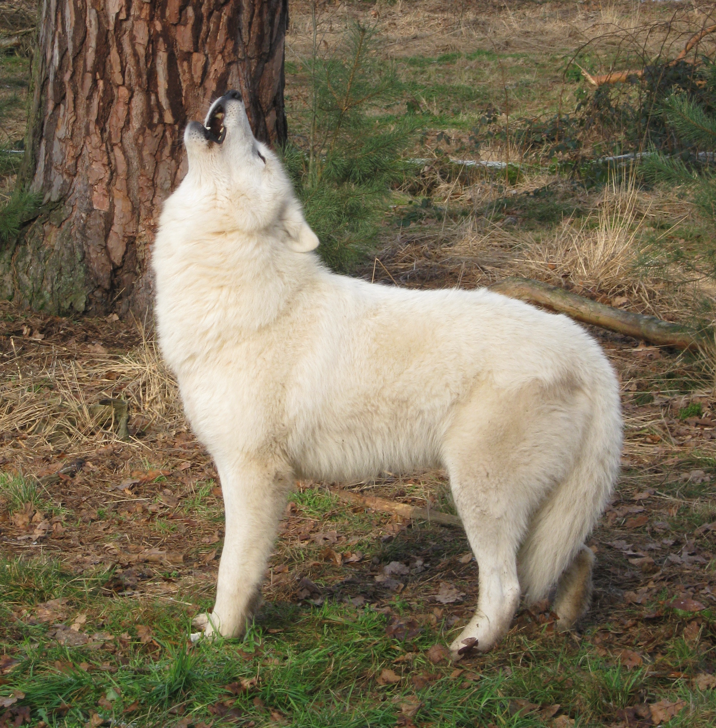 Canis lupus albus, Wildpark Alte Fasanerie Klein-Auheim